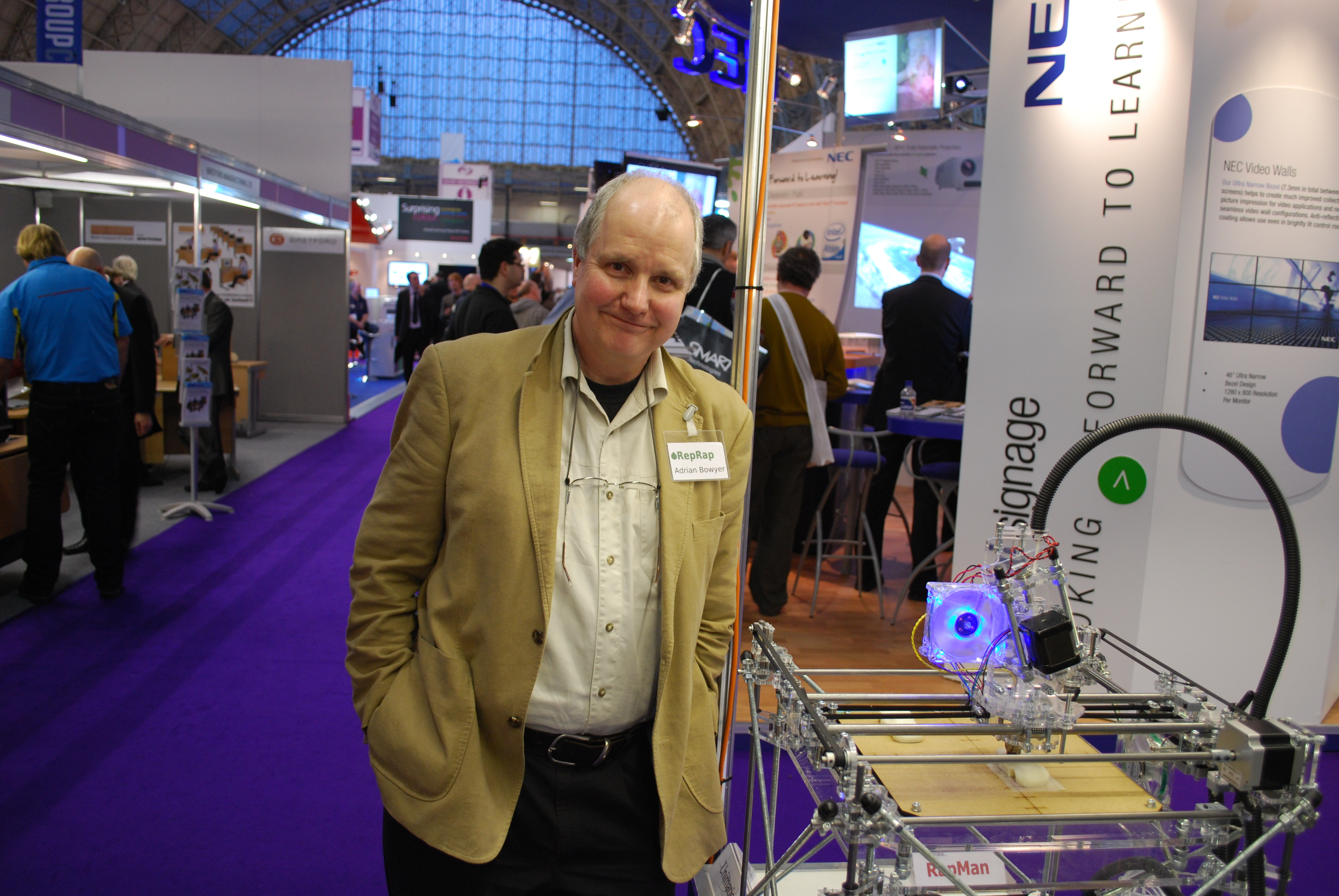 Bowyer, founder of RepRap Project at the BETT 2009